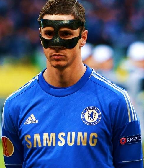 Fernando José Torres Sanz